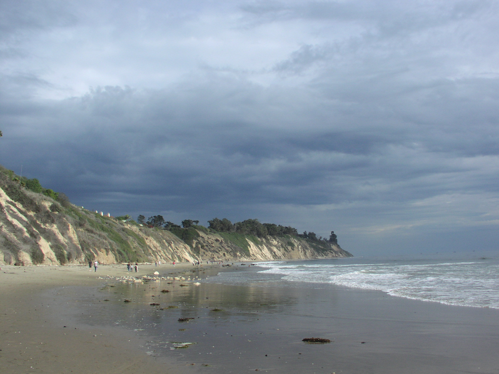 Hendry's Beach (Arroyo Burro Beach), photo by Antandrus, 2002 or so, looking east